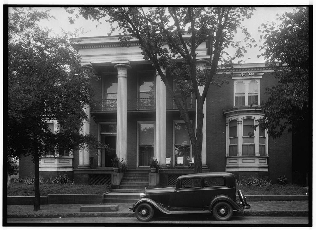 HABS photograph of the Henry Coalter Cabell House in Richmond, Virginia (116 South Third Street), on the National Register of Historic Places.